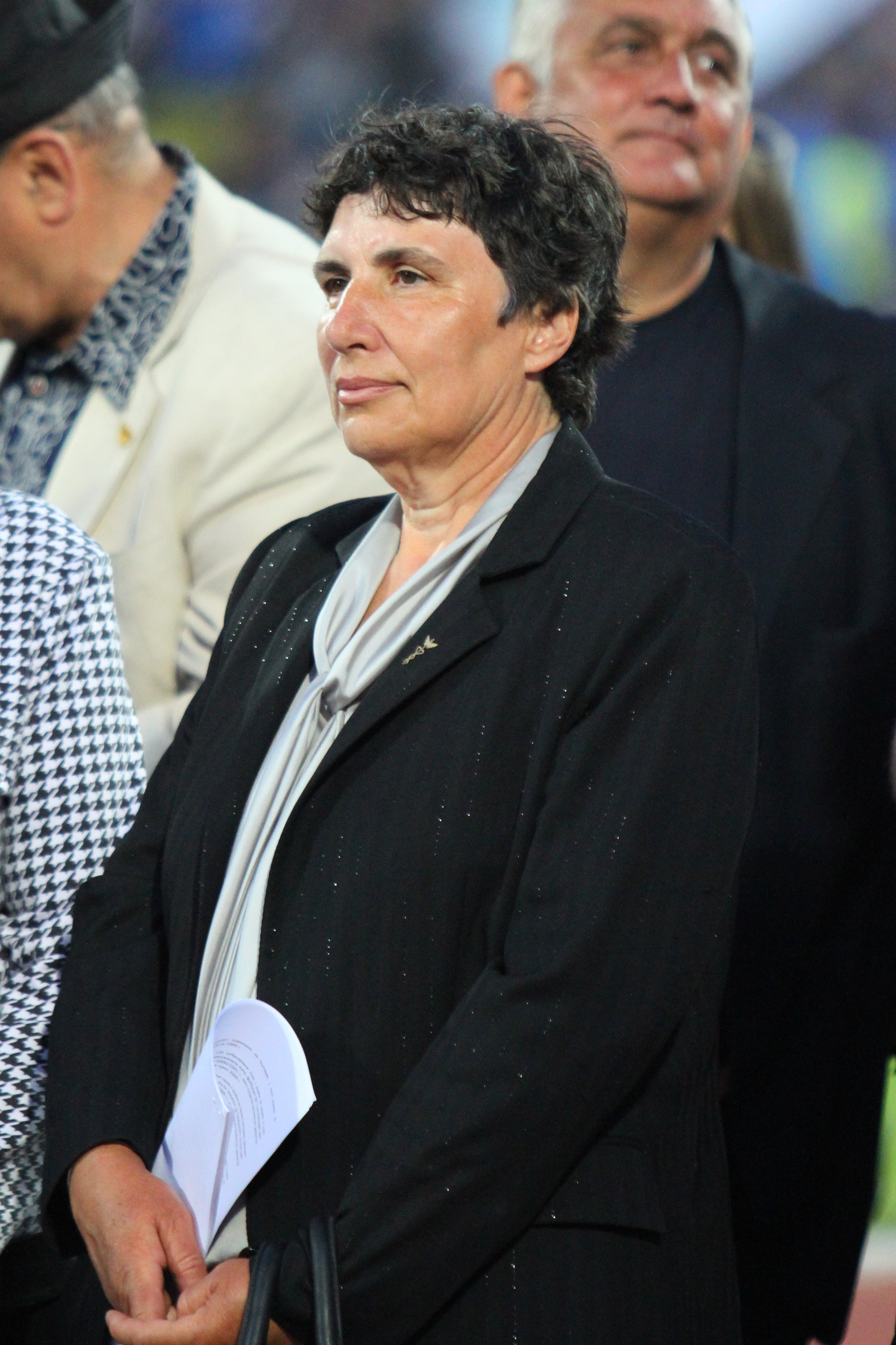 General-Major Nonka Matova